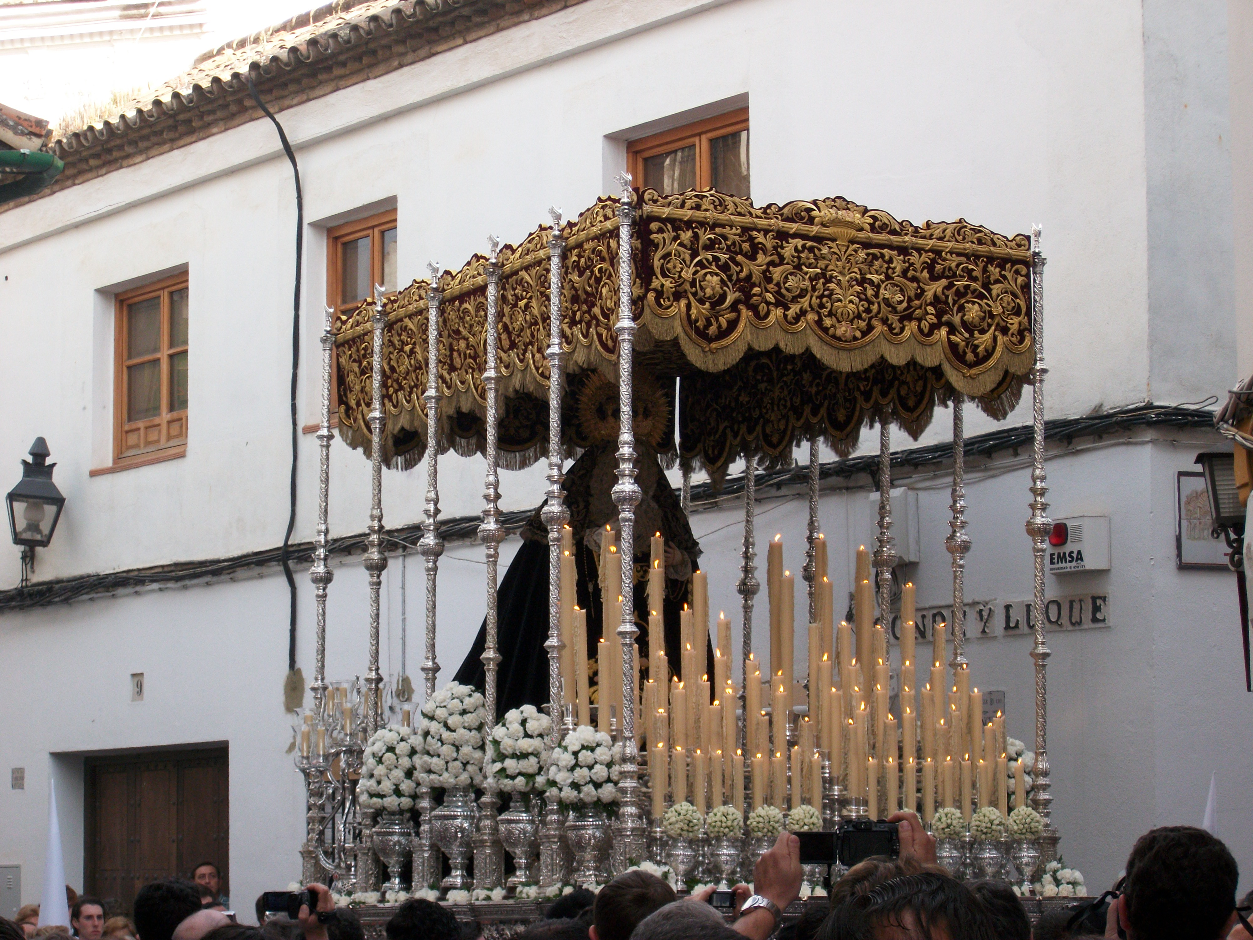 Palio de María Santísima de Gracia y Amparo